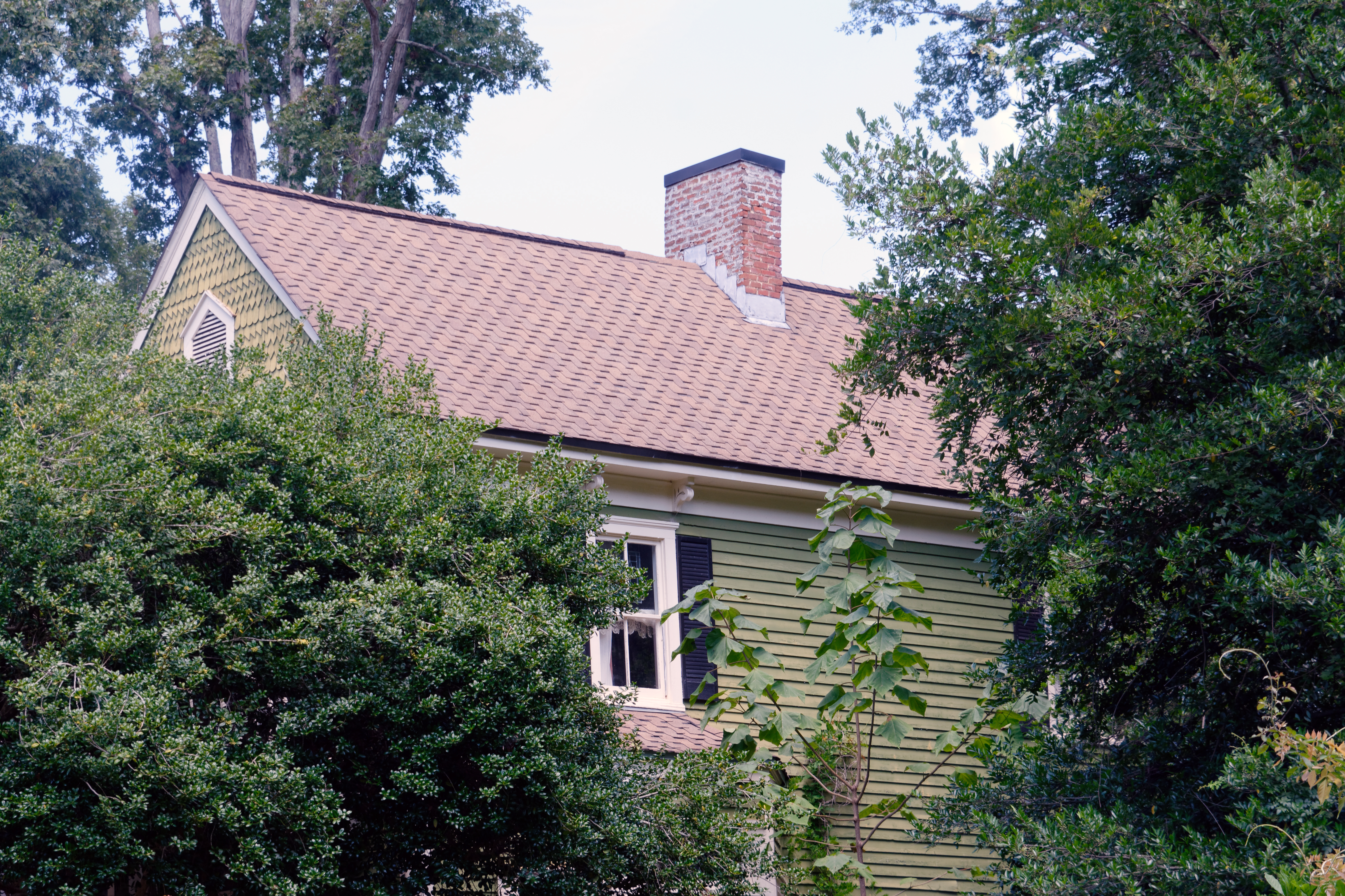 ssac Roberts House, back side, Sandy Springs, GA, US